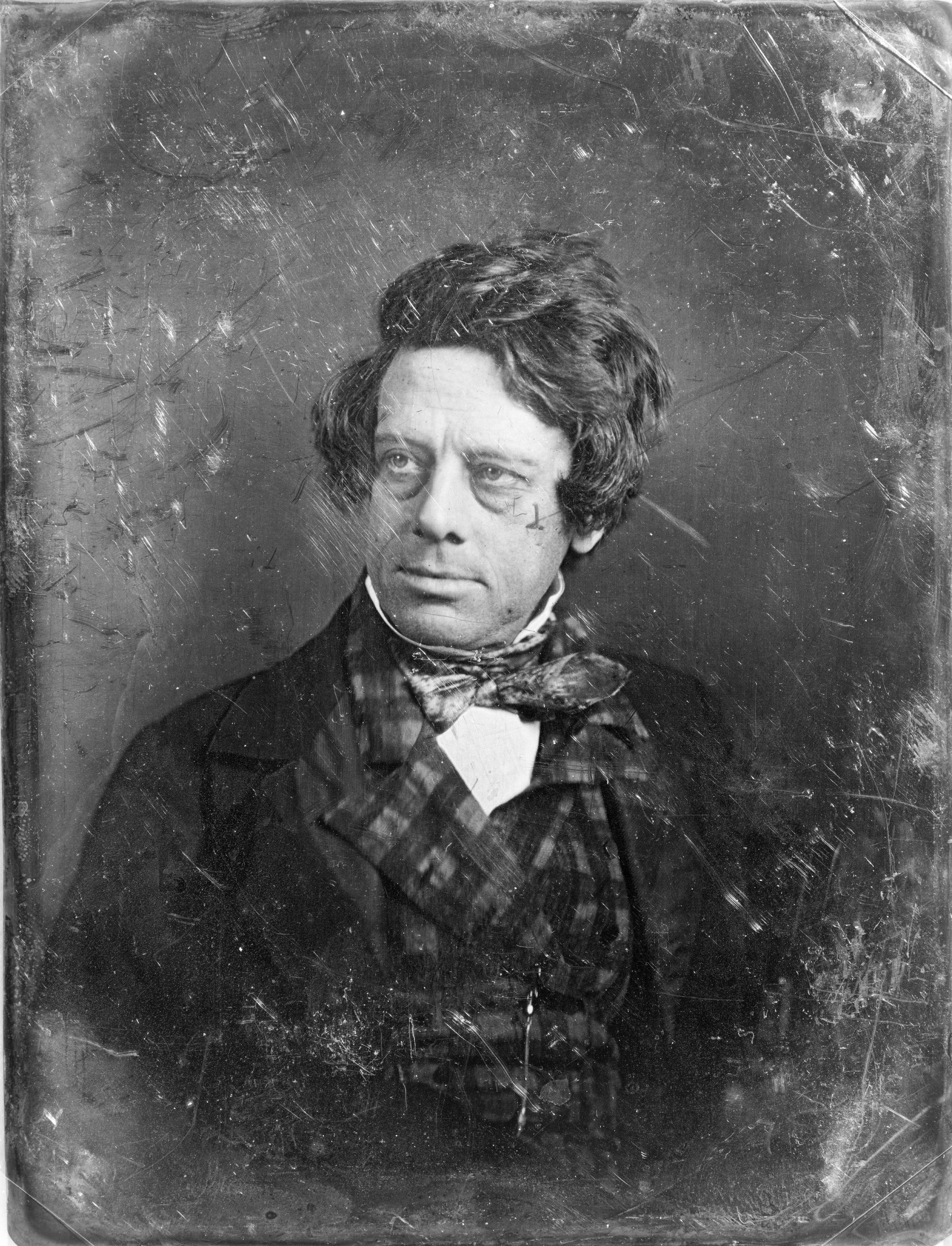 Henry Inman, head-and-shoulders portrait, slightly to the left. Artist (painter). Henry Inman (1801-46) was an American portrait, genre, and landscape painter. He was born at Utica, N. Y., October 20, 1801, and was for seven years an apprentice pupil of John Wesley Jarvis in New York City. He was the first vice president of the National Academy of Design. He excelled in portrait painting, but was less careful in genre pictures. Among his landscapes are "Rydal Falls, England," "October Afternoon," and "Ruins of Brambletye." His genre subjects include "Rip Van Winkle," "The News Boy," and "Boyhood of Washington;" his portraits, those of Henry Rutgers and Fitz-Greene Halleck in the New York Historical Society, of Bishop White, Chief Justices Marshall and Nelson, Jacob Barker, William Wirt, Audubon, DeWitt Clinton, Martin Van Buren, and William H. Seward. Inman painted moe than 30 Native American portraits, of which nearly a dozen are in the collection of the White House. In the Metropolitan Museum, New York, are his "Martin Van Buren," "The Young Fisherman," "William C. Maccready as William Tell." During a year spent in England in 1844-45, he painted Wordsworth, Macaulay, John Chambers, and other celebrities. He returned to America in failing health, and at the time of his death, January 17, 1846, was engaged on a series of historical pictures for the Capitol at Washington. (This summary was created using Commons SumItUp)